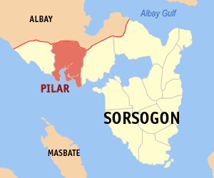 Map of Sorsogon showing the location of Pilar